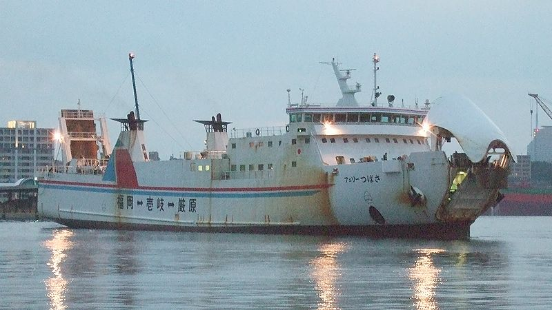 "Ferry Tsubasa", the ship of Iki Tsushima Ferry, Japan / Location:Hakata Port